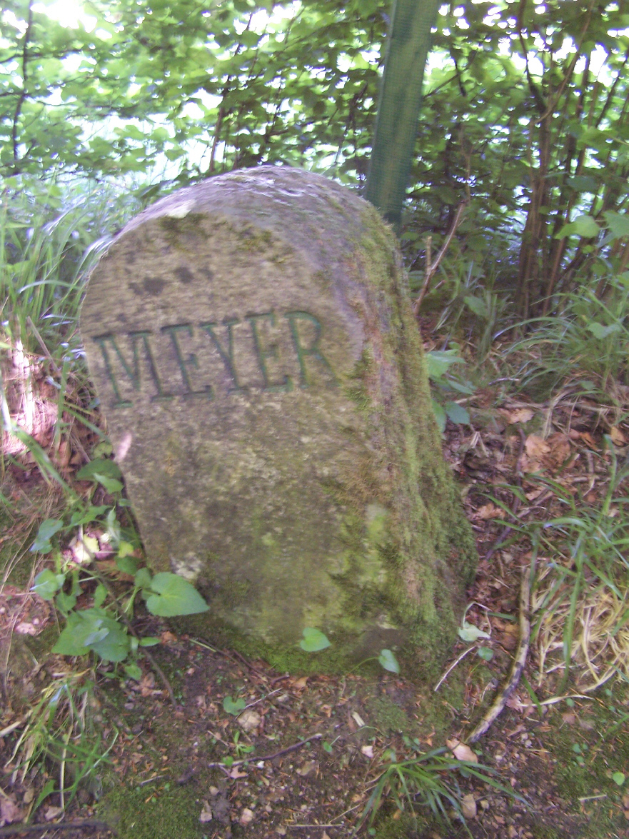 The MEYER stone - a marking of a claim at Steinbach.